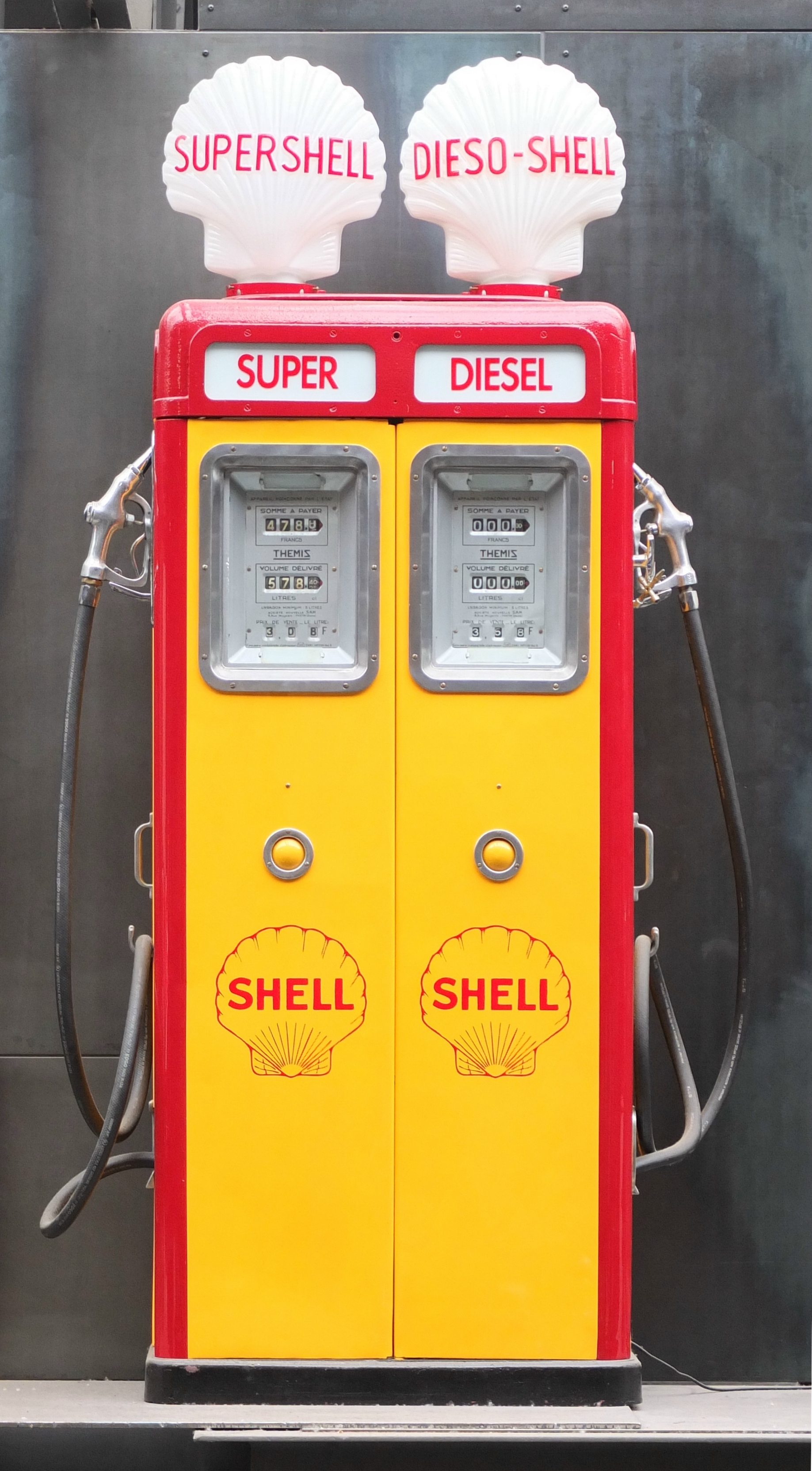 Vintage Shell petrol pump, built 1952, seen at Classic Remise Berlin